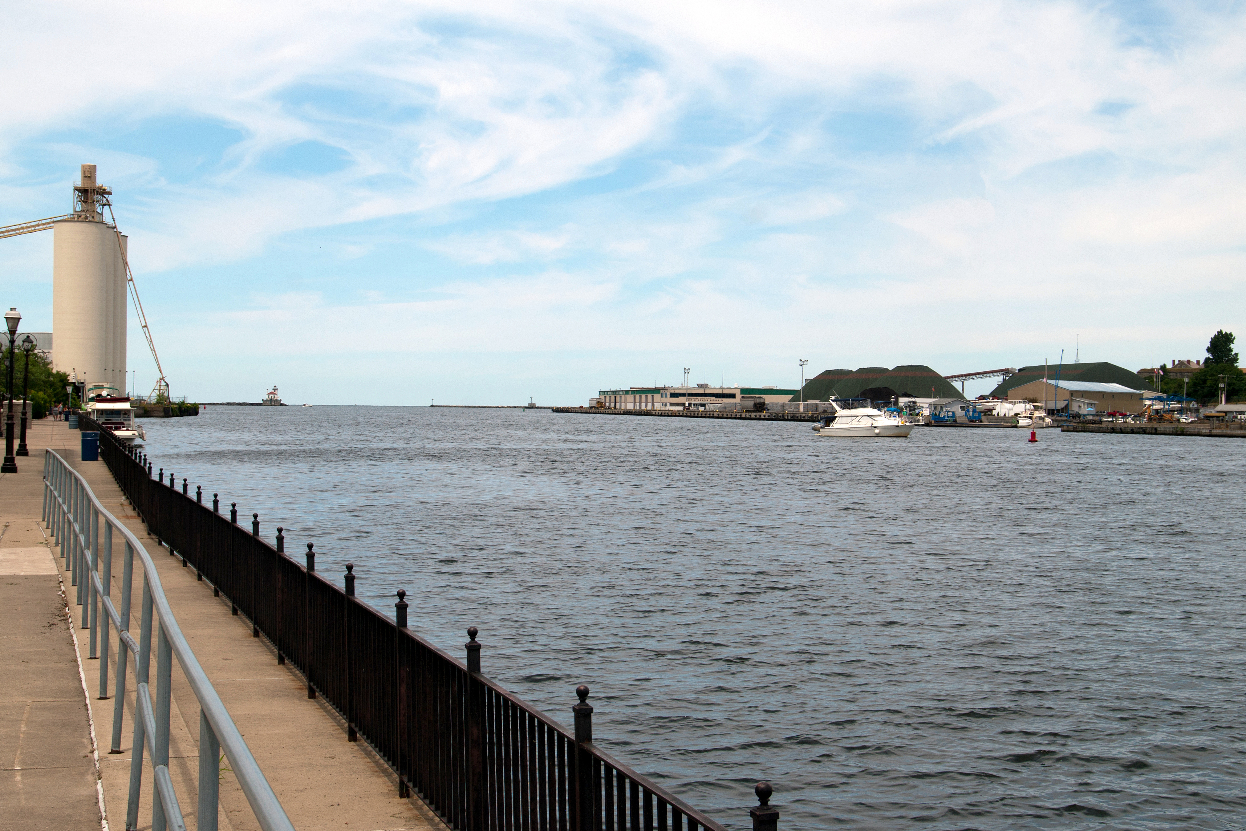 Harbour in Oswego, NY.